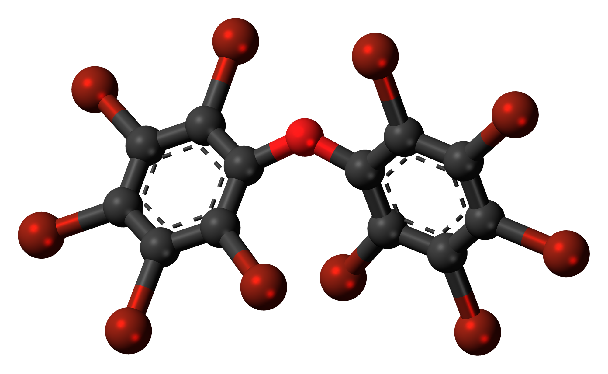 Ball-and-stick model of the decabromodiphenyl ether molecule, also known as DBDE, a brominated flame retardant. Colour code: Carbon, C: black Oxygen, O: red Bromine, Br: red-brown